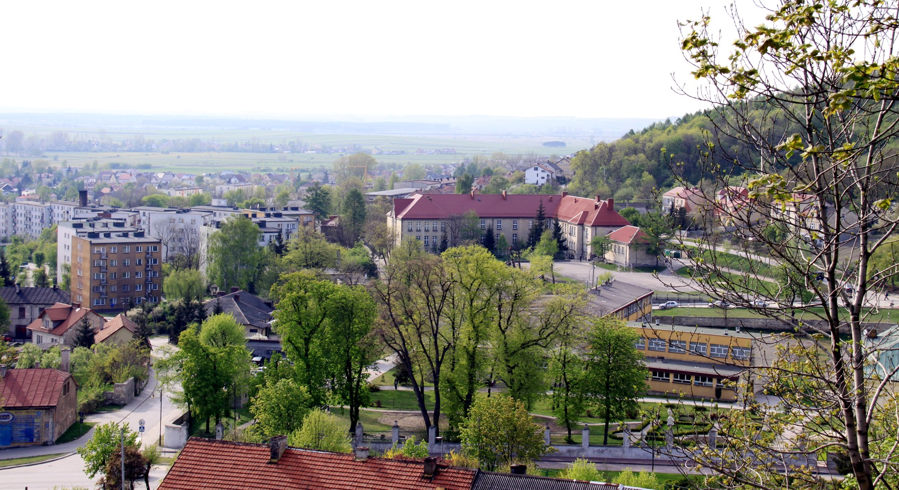 Pińczów, view from Mount St. Anne - city center with primary school nr 1 and the valley of Nida River.